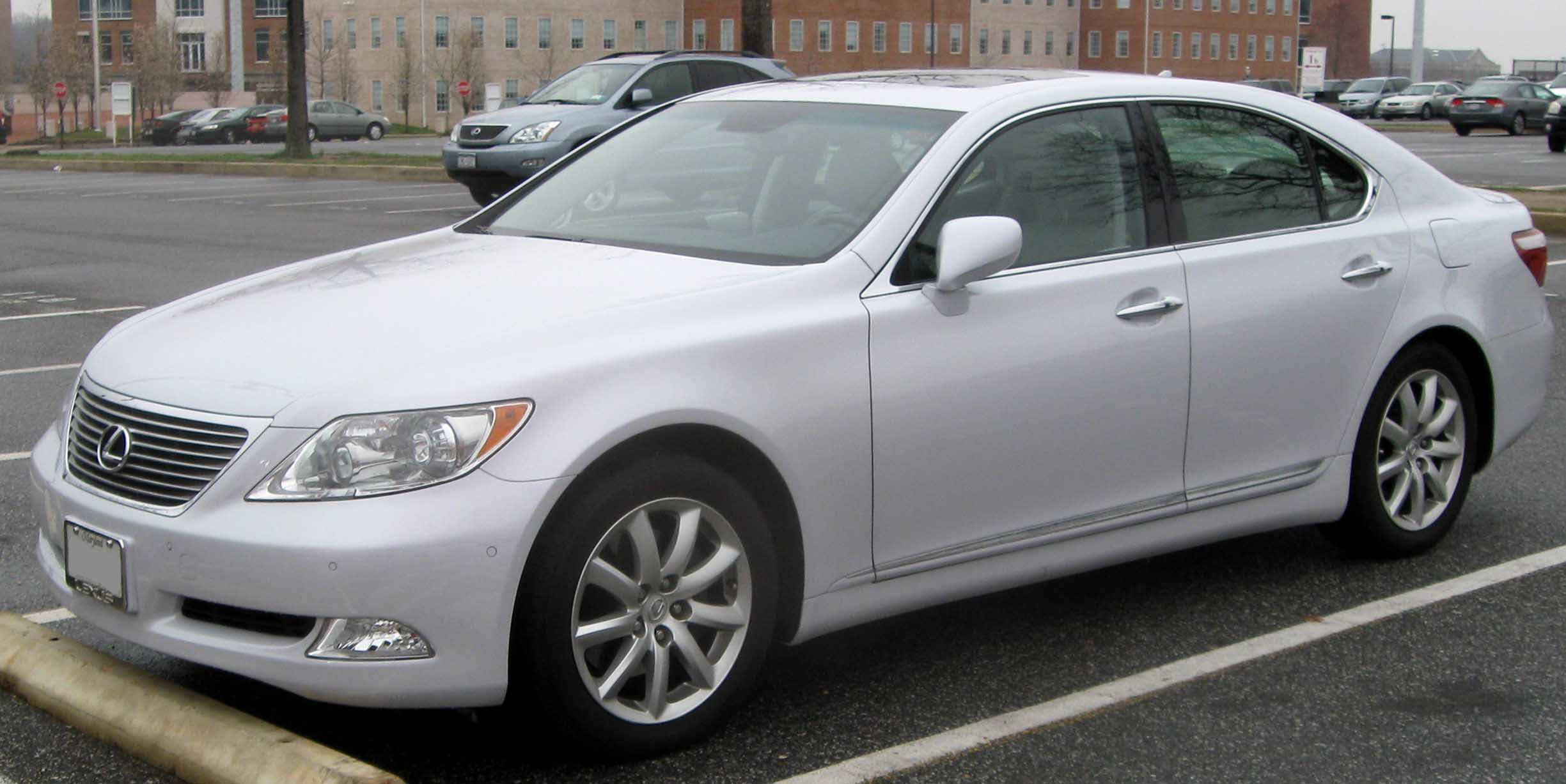 2007-2009 Lexus LS460 photographed in College Park, Maryland, USA.